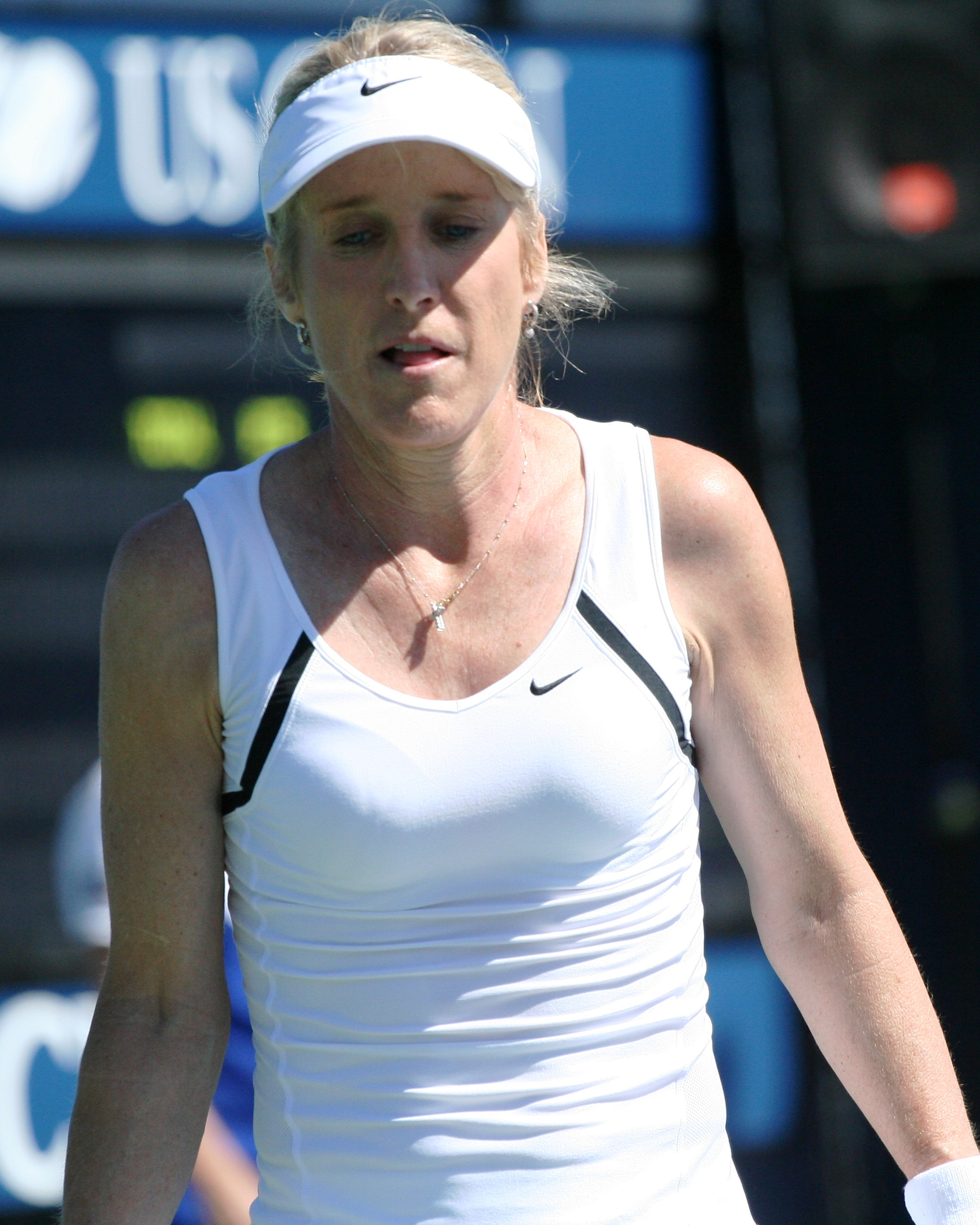 U.S. Open Champions Team Tennis Saturday, Sept. 11, 2010